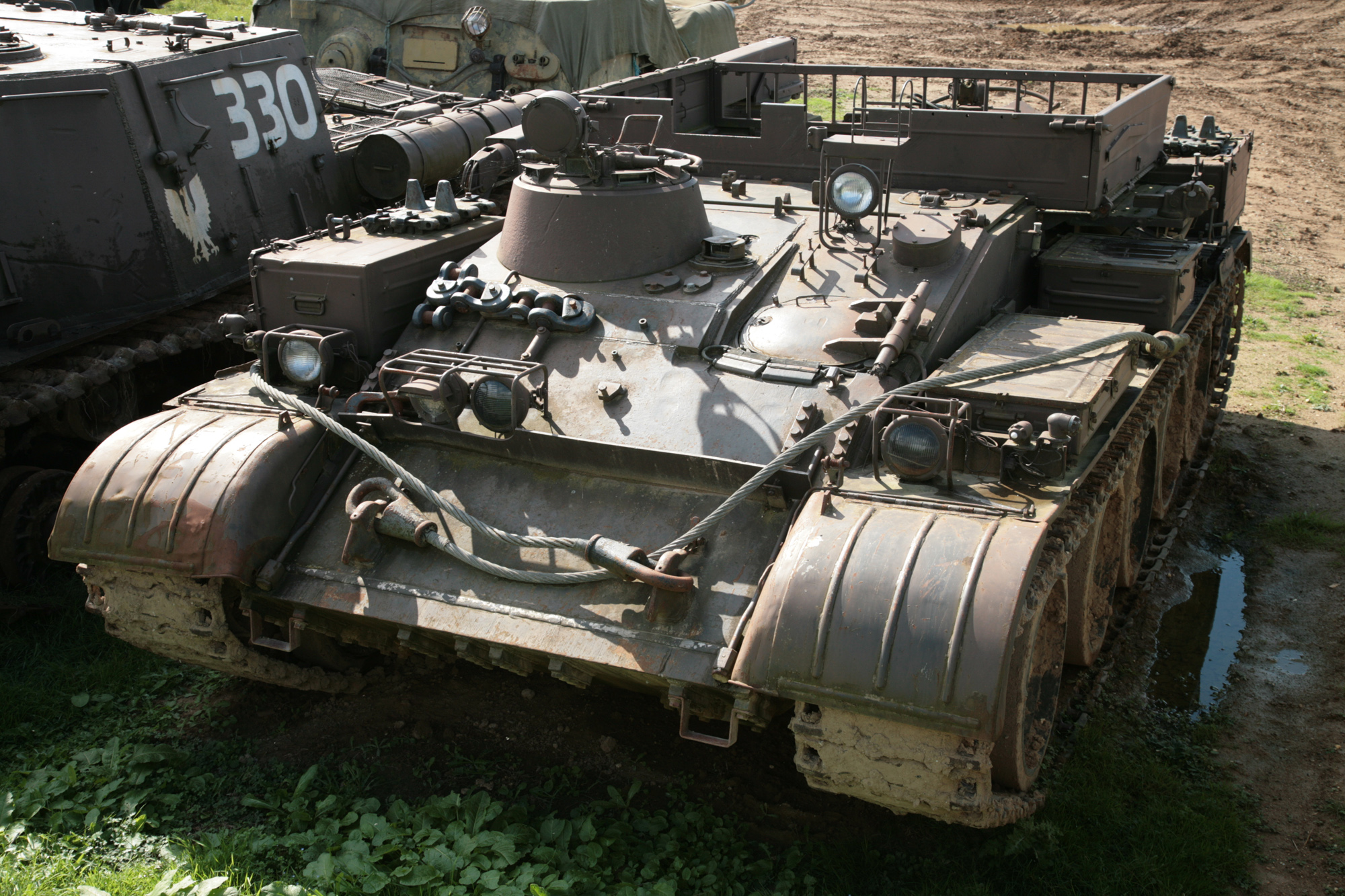 A VT-55A armoured recovery vehicle based on the T-55 tank chassis at RAF Duxford